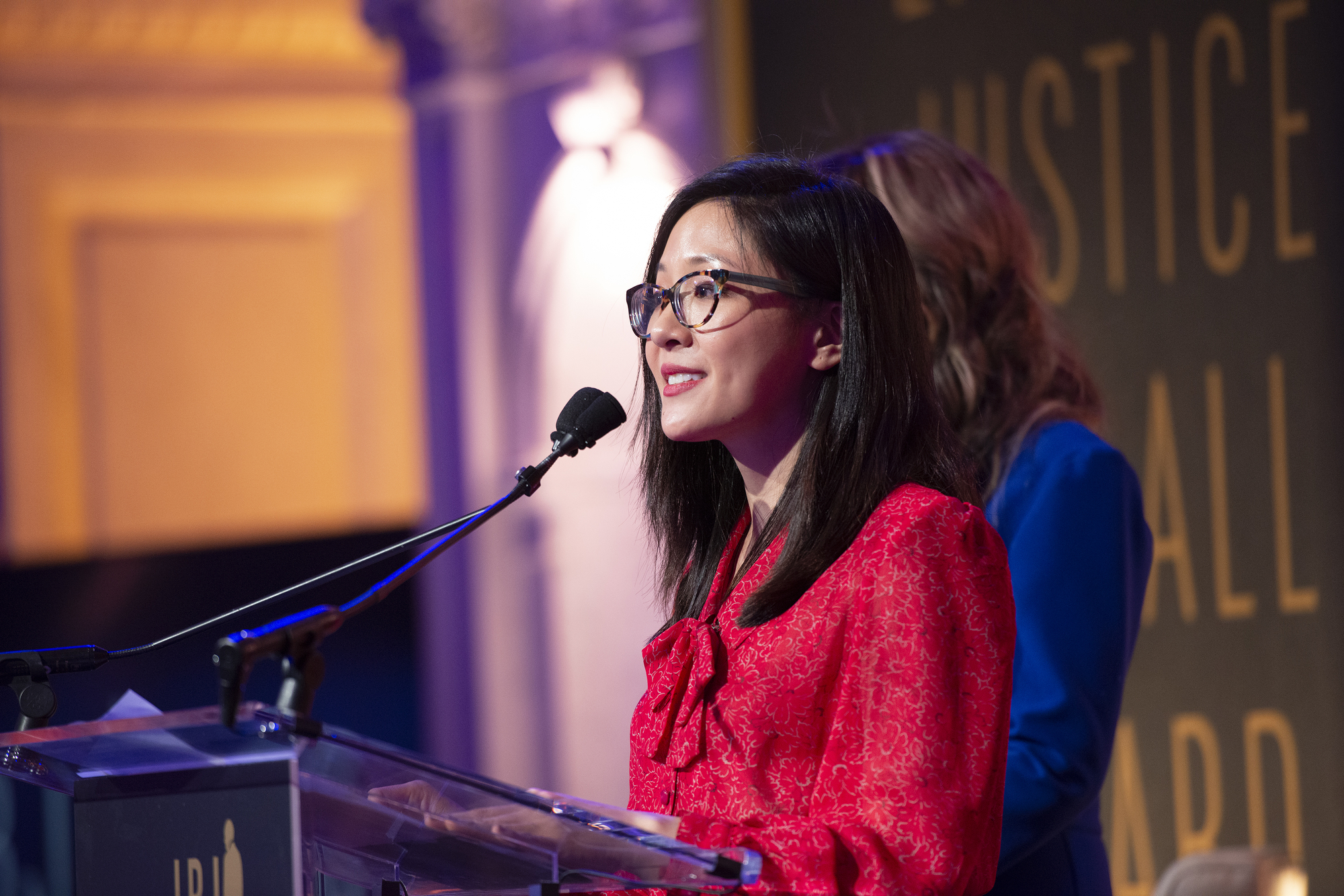 Golden Globe-nominated actress Constance Wu pays tribute to U.S. Supreme Court Justice Ruth Bader Ginsburg during a ceremony at the Library of Congress in Washington, D.C. on Jan. 30, 2020.